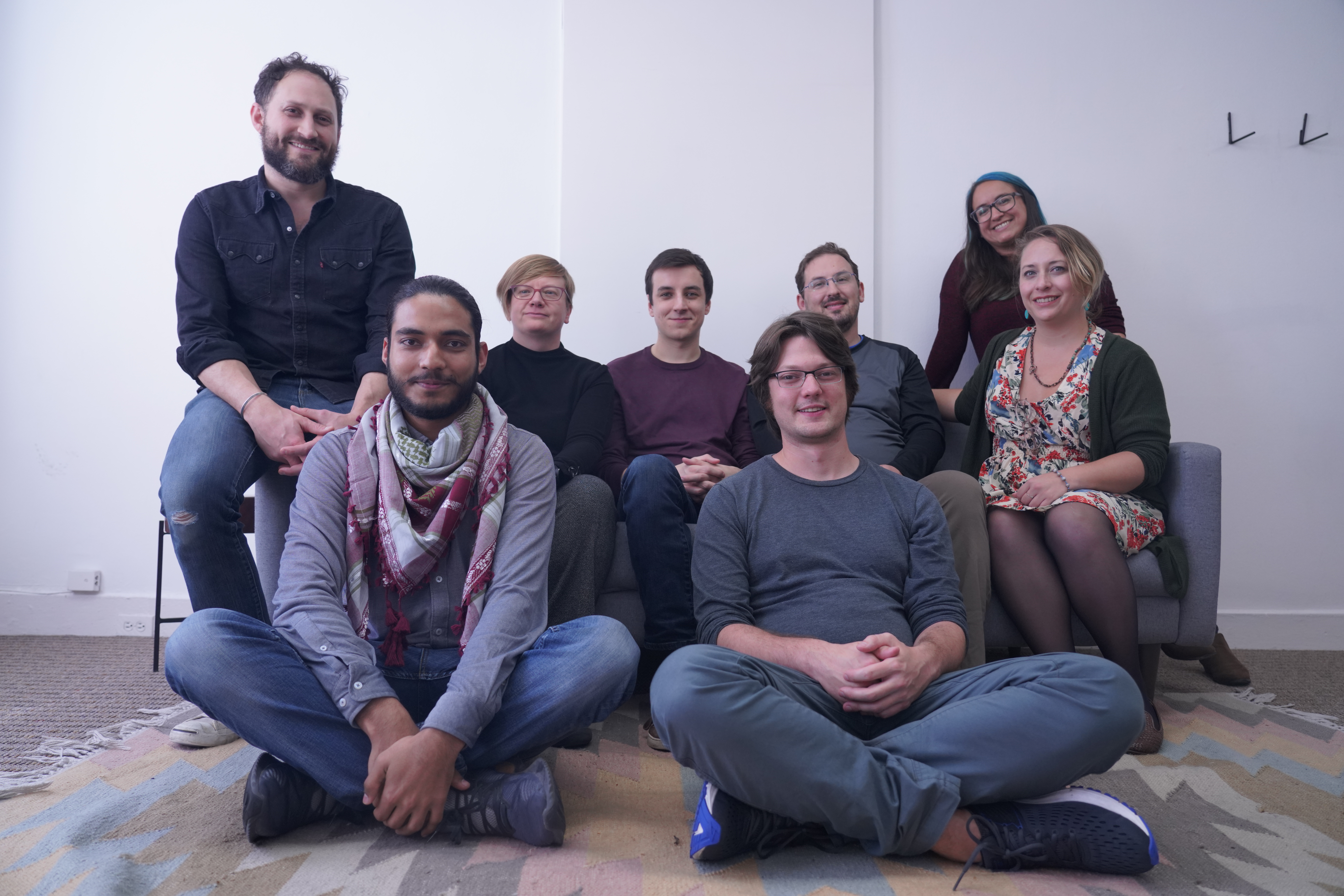 Community Programs Team photo - All Hands 2019